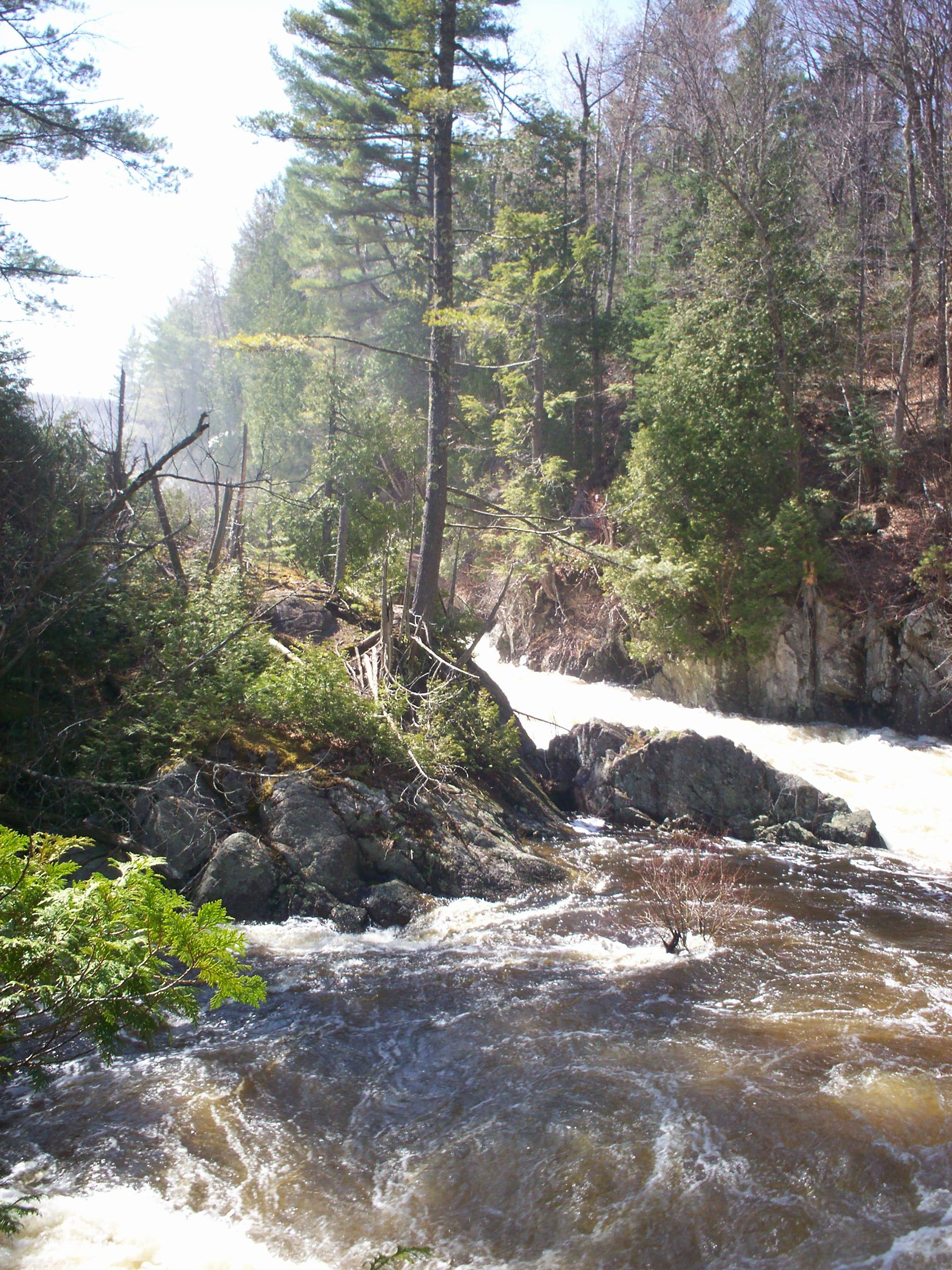 Franklin Falls on the Saranac River, Town of Franklin, Franklin County, New York, Adirondack Park, New York.